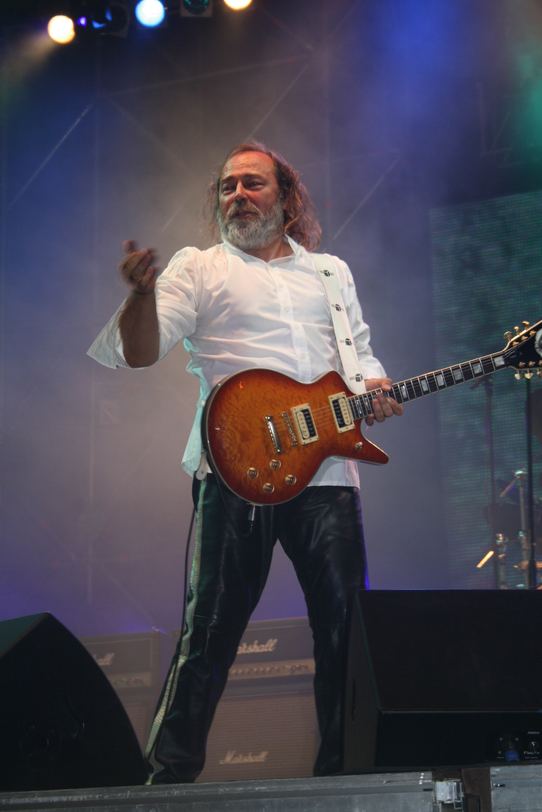 György Molnár hungarian guitarist, member of hungarian rockband Omega. Location: Dunakapu Square, Győr (Hungary)